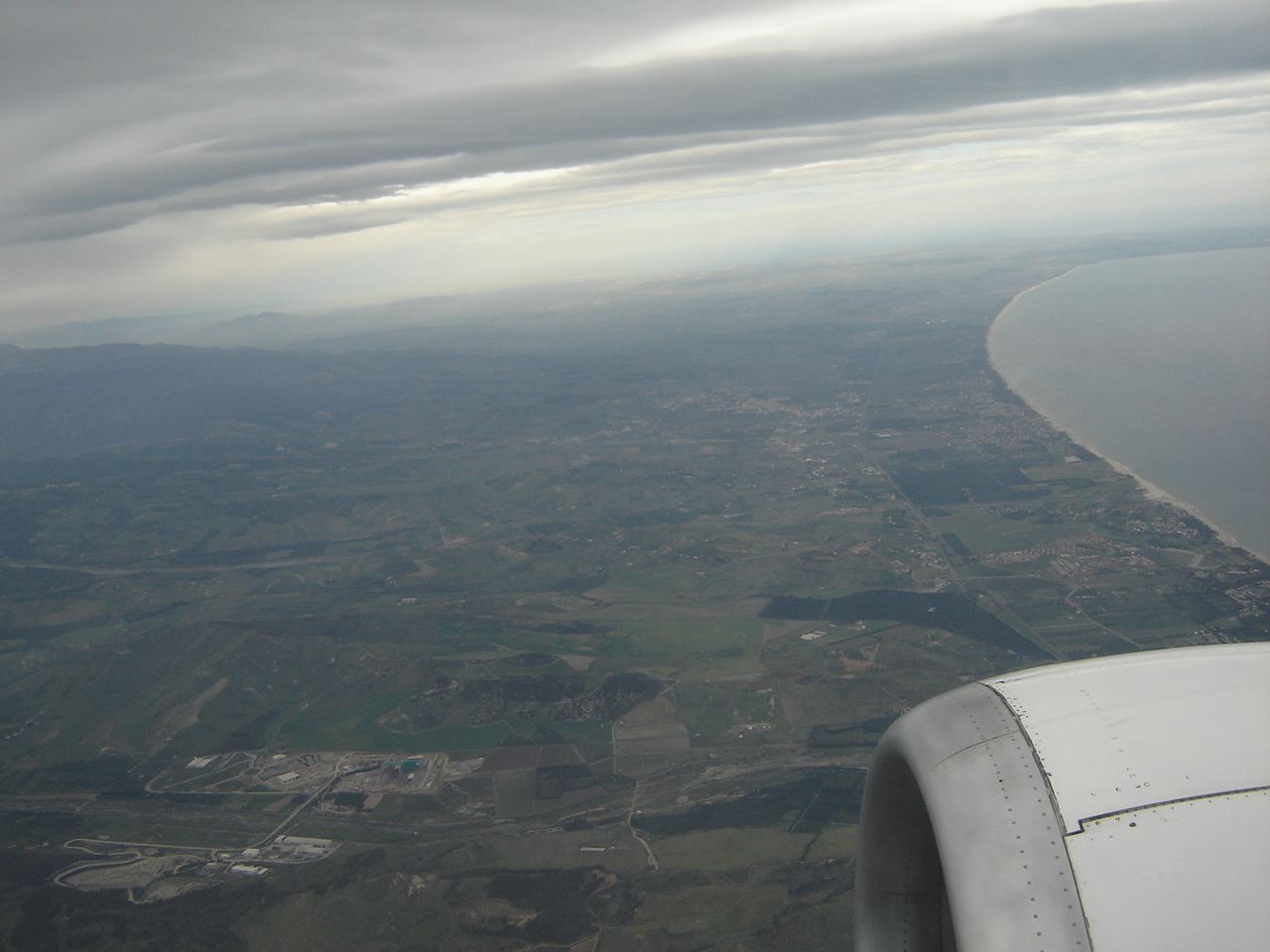 Landing approach from Milan Malpensa to Lamezia Terme March 2006. Photo taken by Deathworm 17:06, 1 May 2007 (UTC)